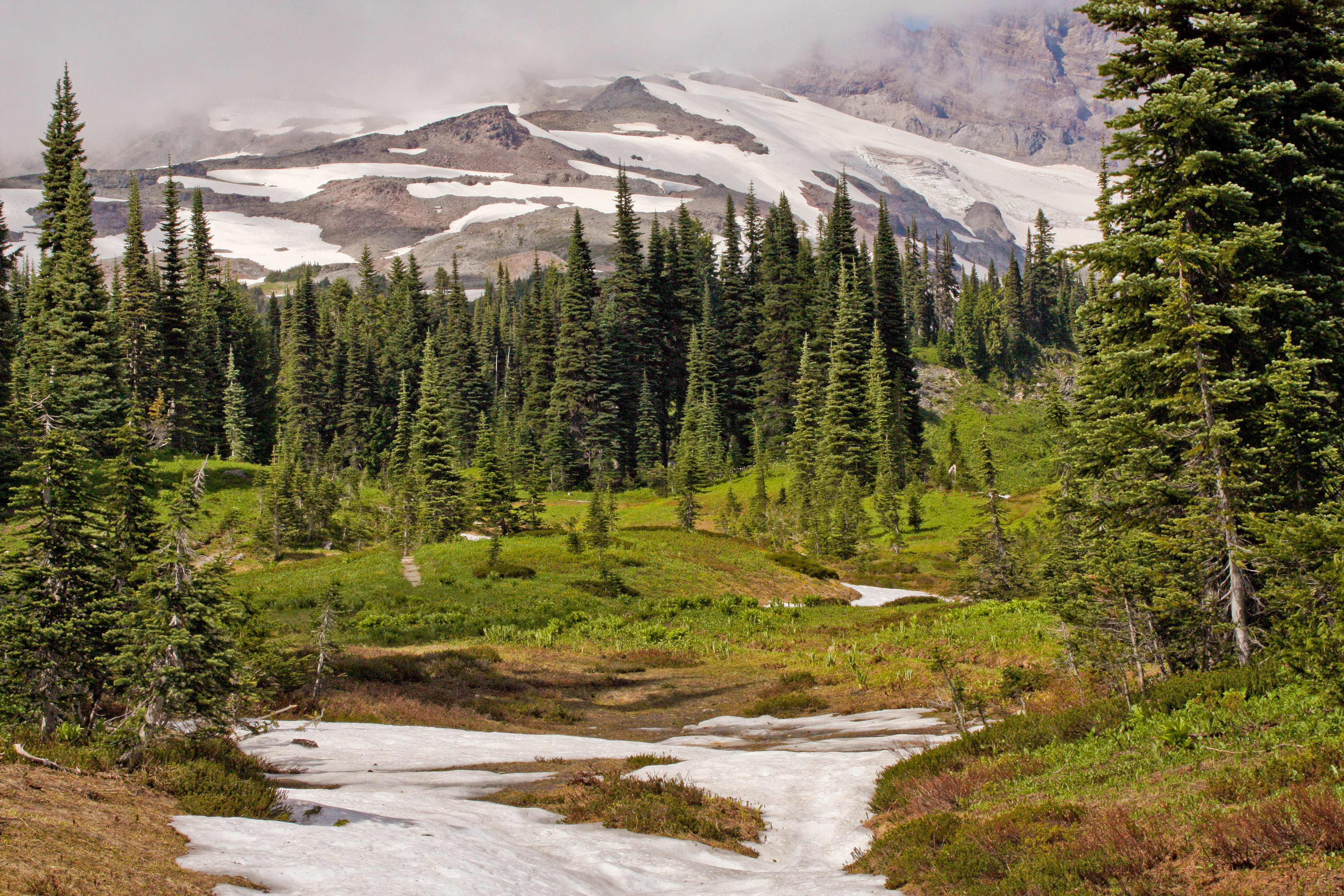 Subalpine Fir forest; McClure Rock (left center, just above forested slopes; 7385 feet)